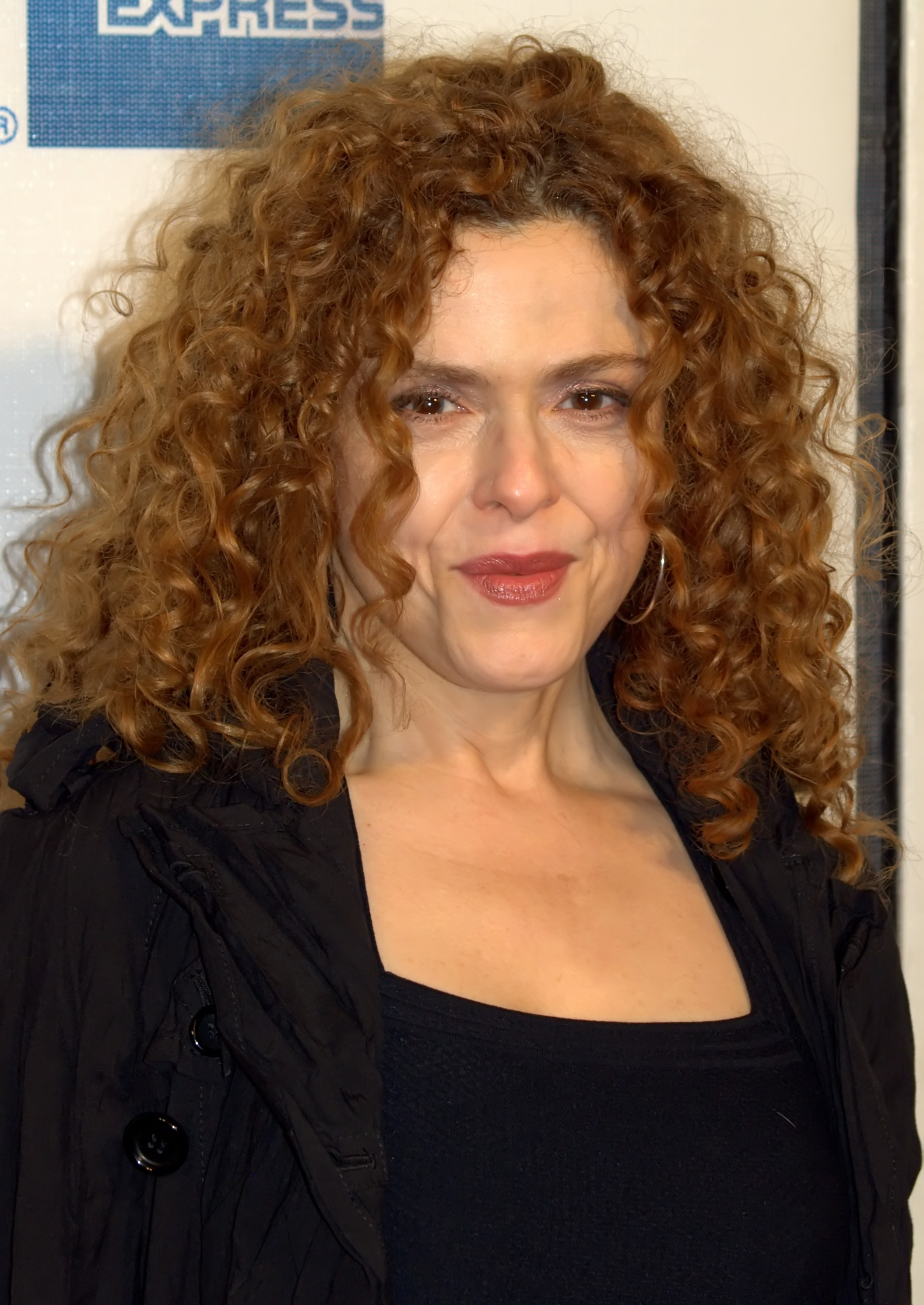 Bernadette Peters at the premiere of Don McKay at the 2009 Tribeca Film Festival.